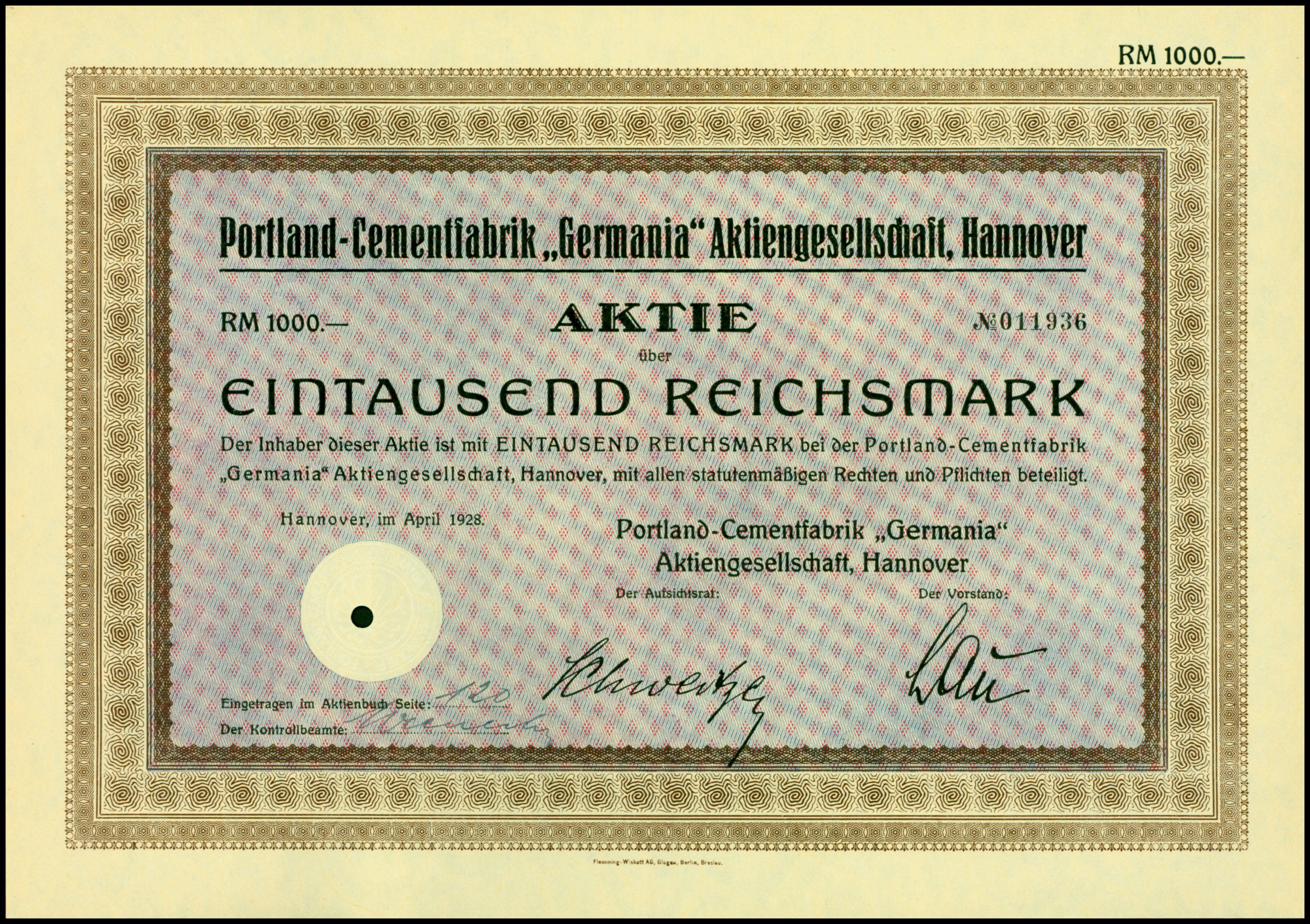 Share of the Portland-Cementfabrik "Germania" AG, issued April 1928